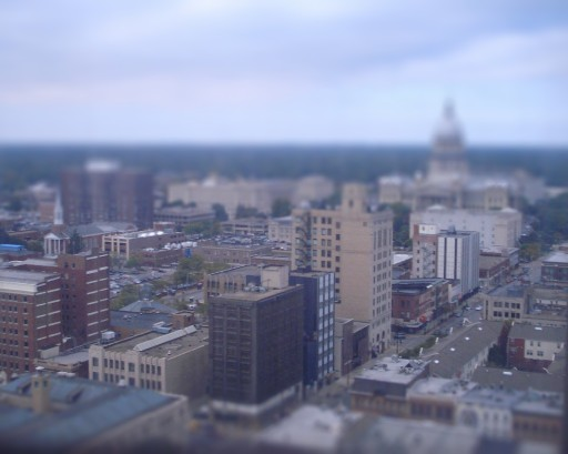 Fake tilt shift of Springfield, Illinois.